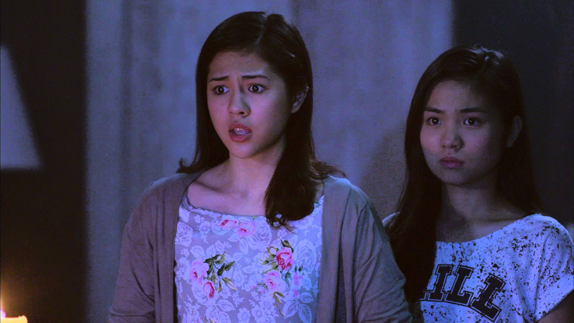 Janella Salvador and Sharlene San Pedro at the trailer of Filipino horror film Haunted Mansion (2015 film) Haunted Mansion